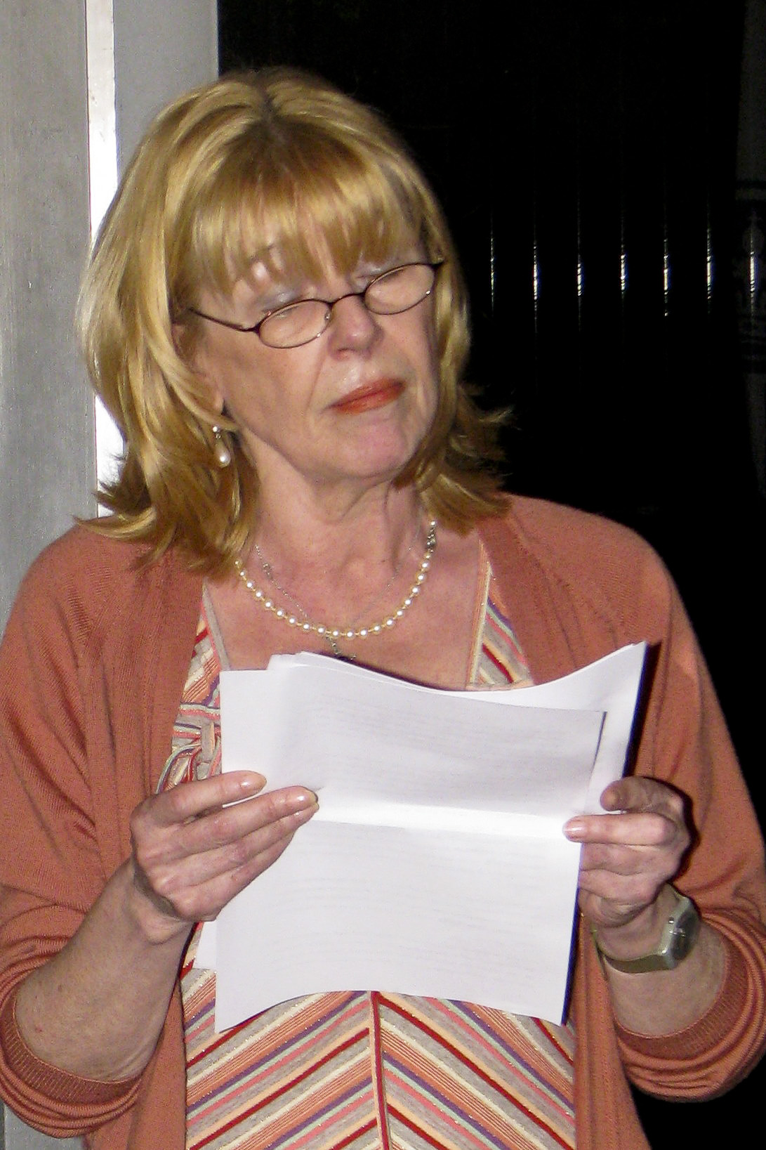 The german journalist Ingeborg Schober, 2008. Photo: Andrea Fink.